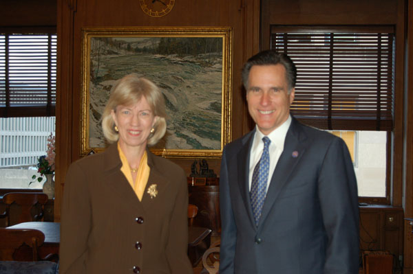 Secretary Gale Norton hosting Department of Interior headquarters visit by Massachusetts Governor Mitt Romney, right, for discussion of the Nantucket Sound wind farm project and other issues, 11/10/2005